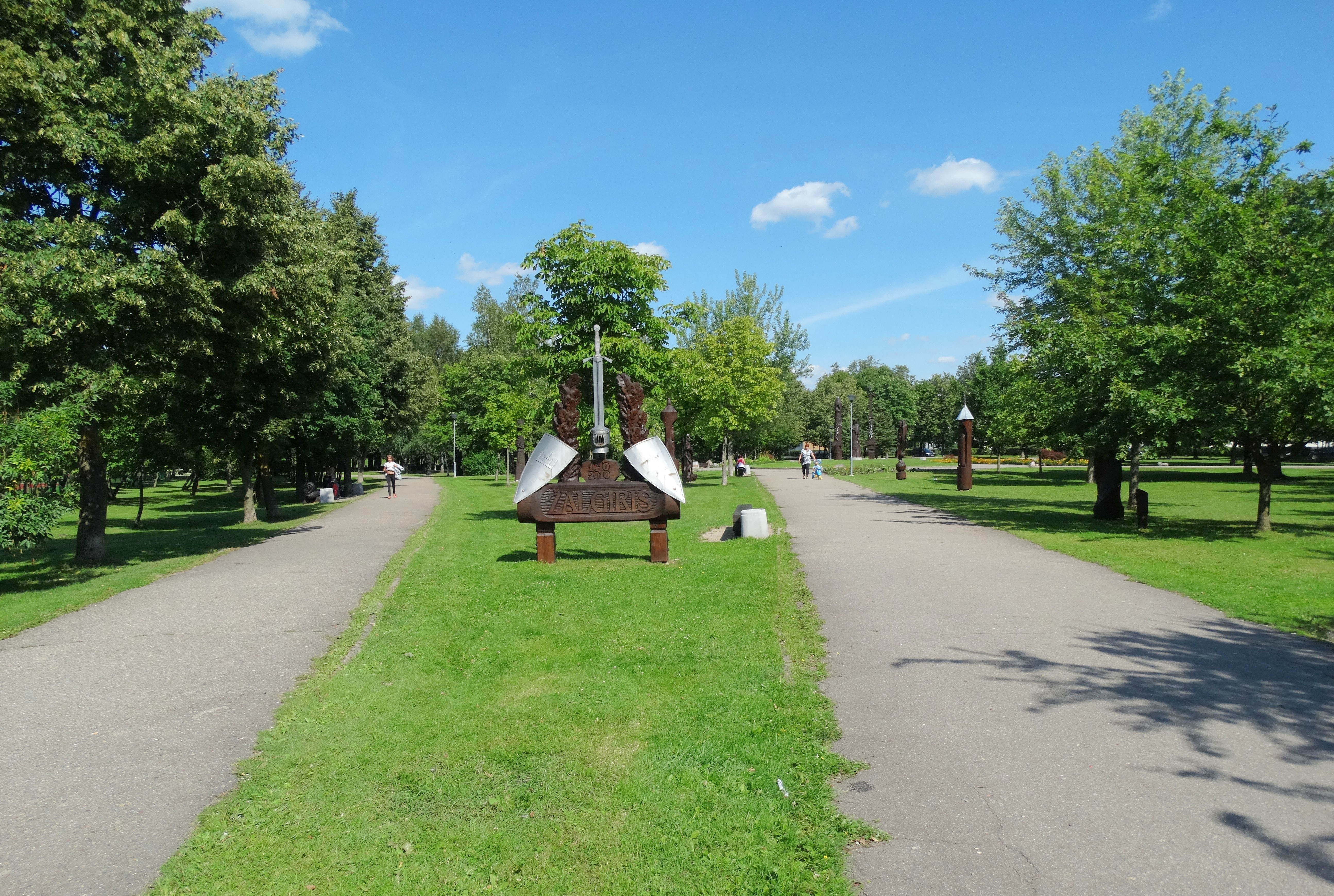 Žalgiris Park, Radviliškis, Lithuania